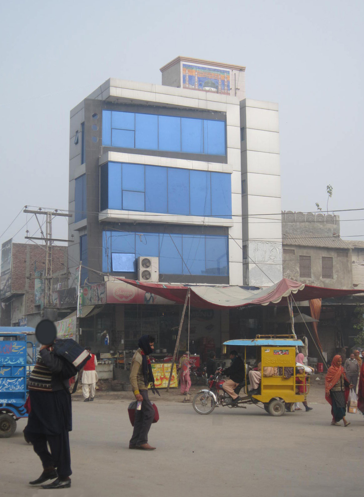 Milan Hotel, Kalma Chowk, Renala Khurd